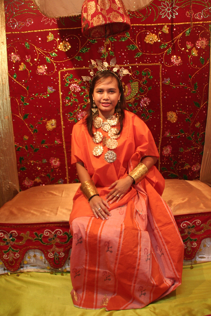 Baju Bodo, traditional clothing of Bugis, Sulawesi, Indonesia.